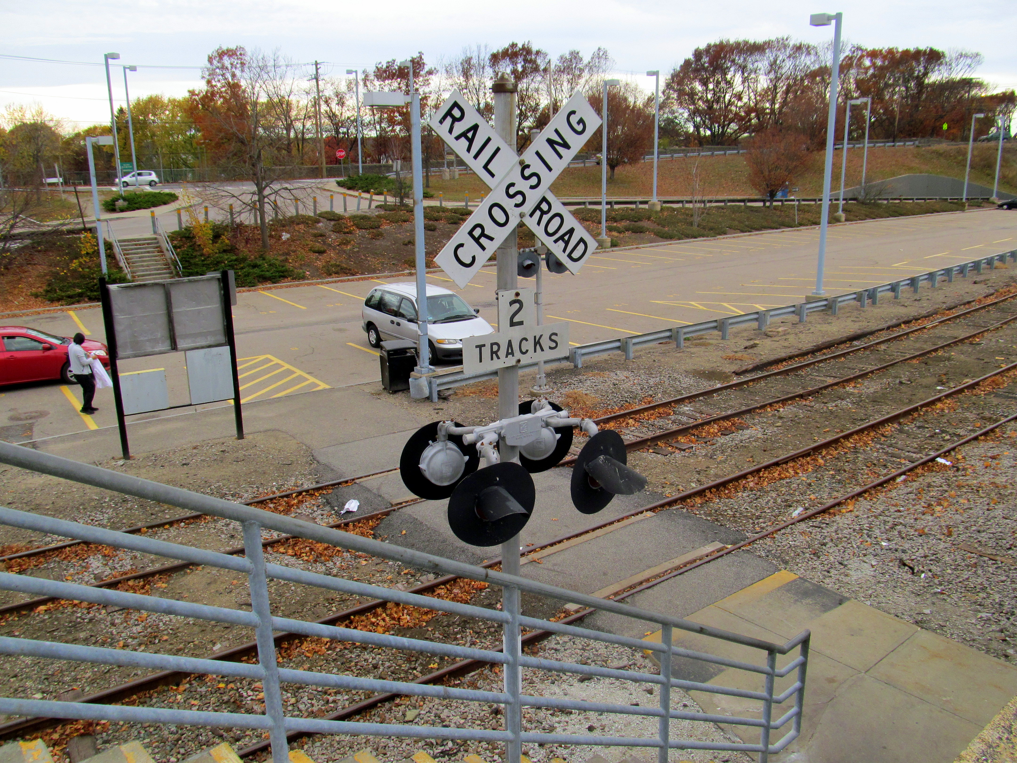 Pedestrian grade crossing of the Dedham Branch and Readville 5-Yard lead at Readville station, viewed from the Franklin Line platform in November 2015